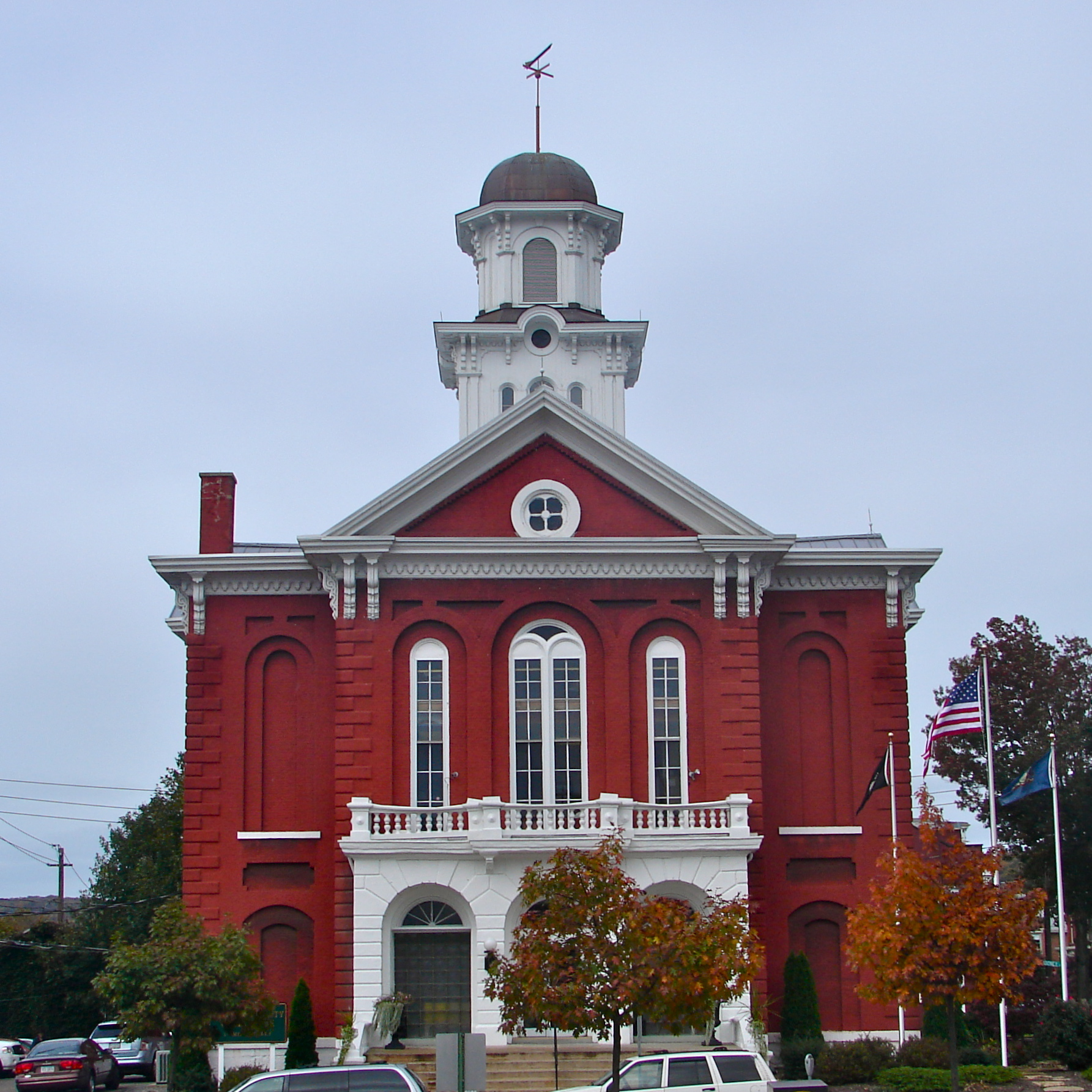 Montour County Courthouse, Danville, Pennsylvania. In the square defined by Market, Mill, and Roonney Streets and Friendship alley. Coords 40.960245,-76.619253